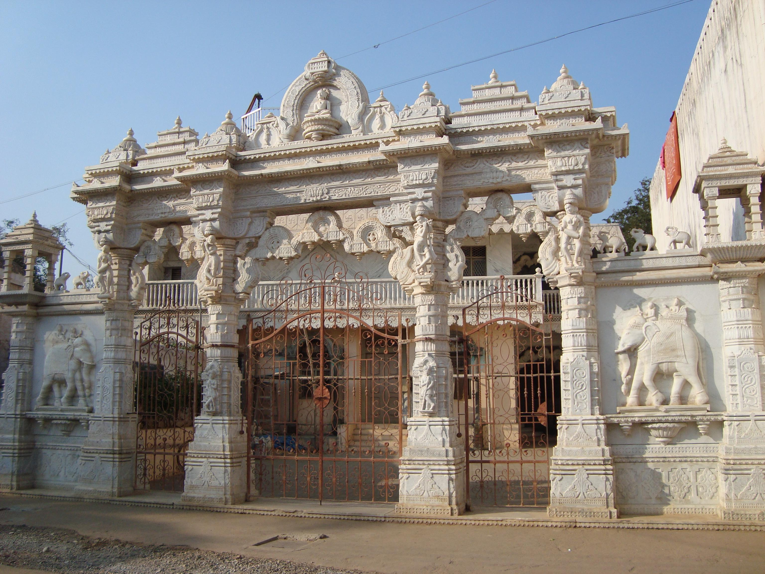 Lakshmeshwara New Jain temple Author and source : Manjunath Doddamani, Gajendragad/Hubli, Karnataka(North), India.